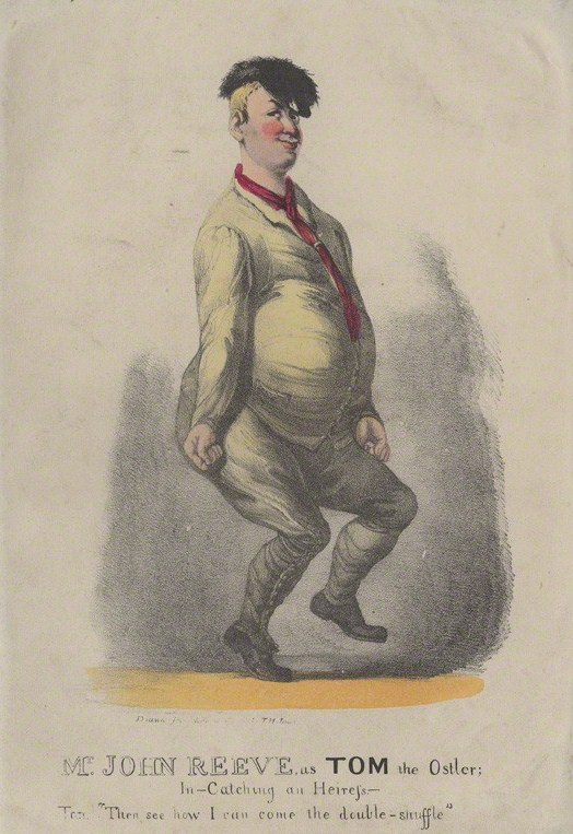 Portrait of John Reeve (1799–1838), English comic actor, in character as "Tom the Ostler" in Catching an Heiress.